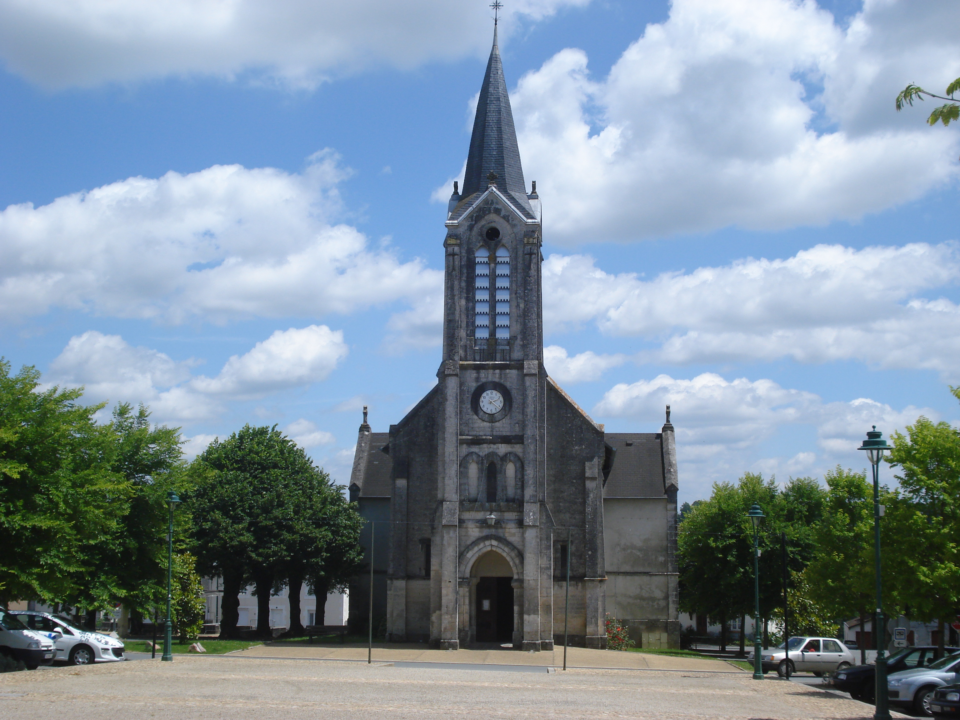 La_Coquille (Dordogne fr),church and square